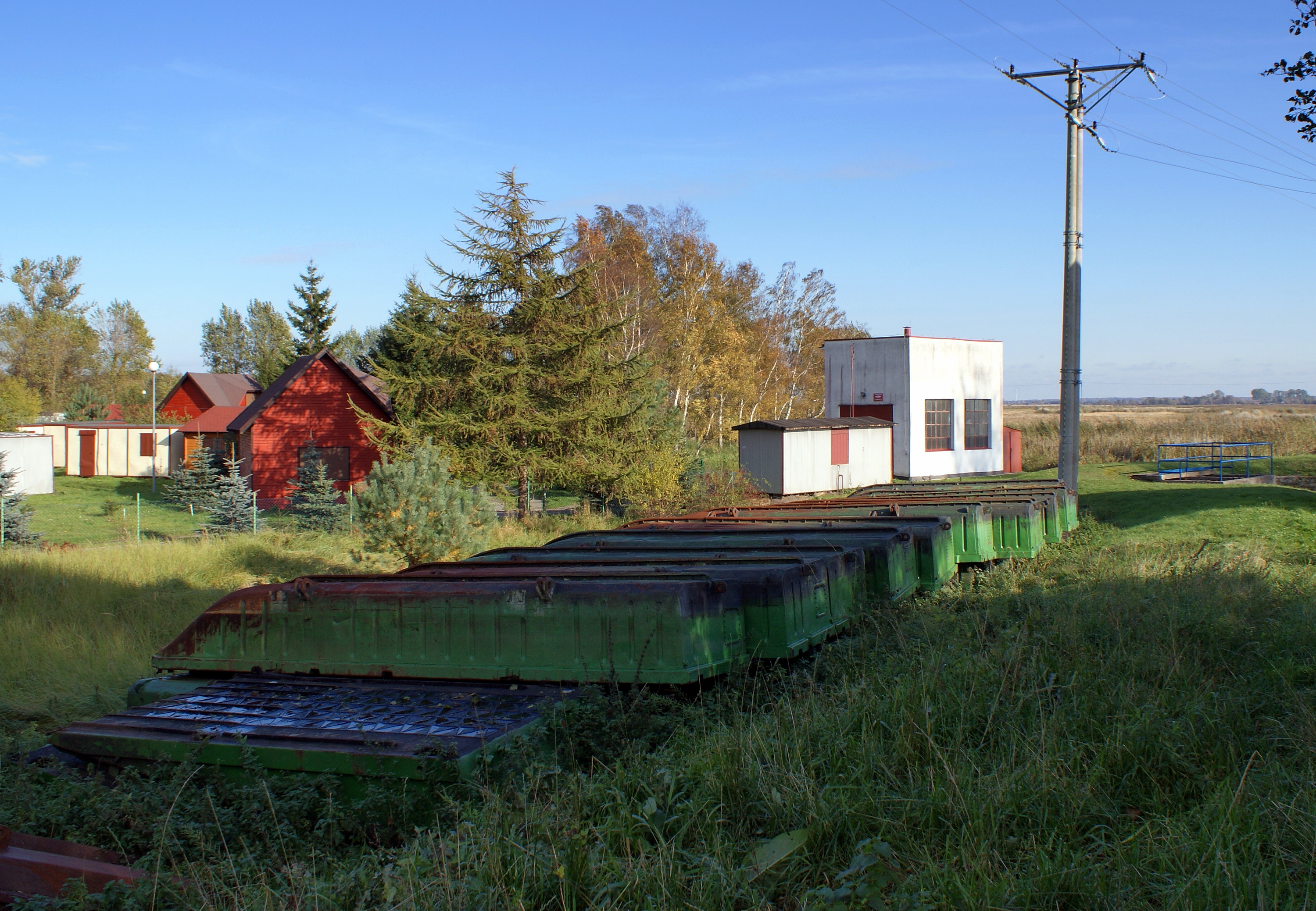 Voivodship flood base in Mrzeżyno, Poland